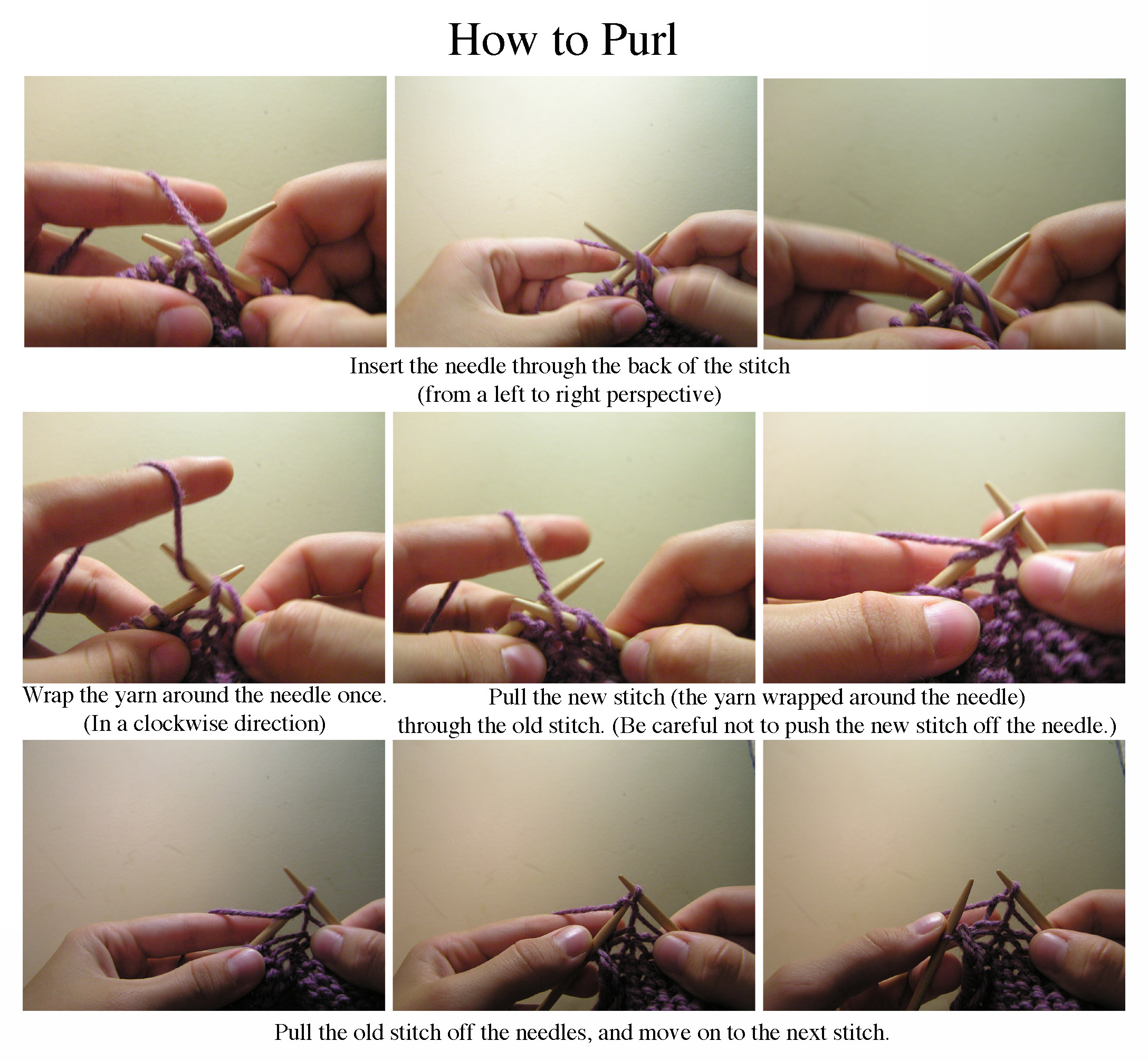 This is a grouping of several pictures, illustrating the different motions done in order to create a new stitch when purling. The pictures were taken August 8th, 2005. They were put together on October 4th using Adobe Photoshop. The pictures were taken by me, using a Fujifilm FinePix A205 Digital Camera. Please note that the instructions carry a serious error: For a Purl stitch, the right hand needle should be inserted into the stitch from RIGHT to LEFT, not left to right, as the caption states. Also the yarn is wrapped COUNTER clockwise to make the new stitch.